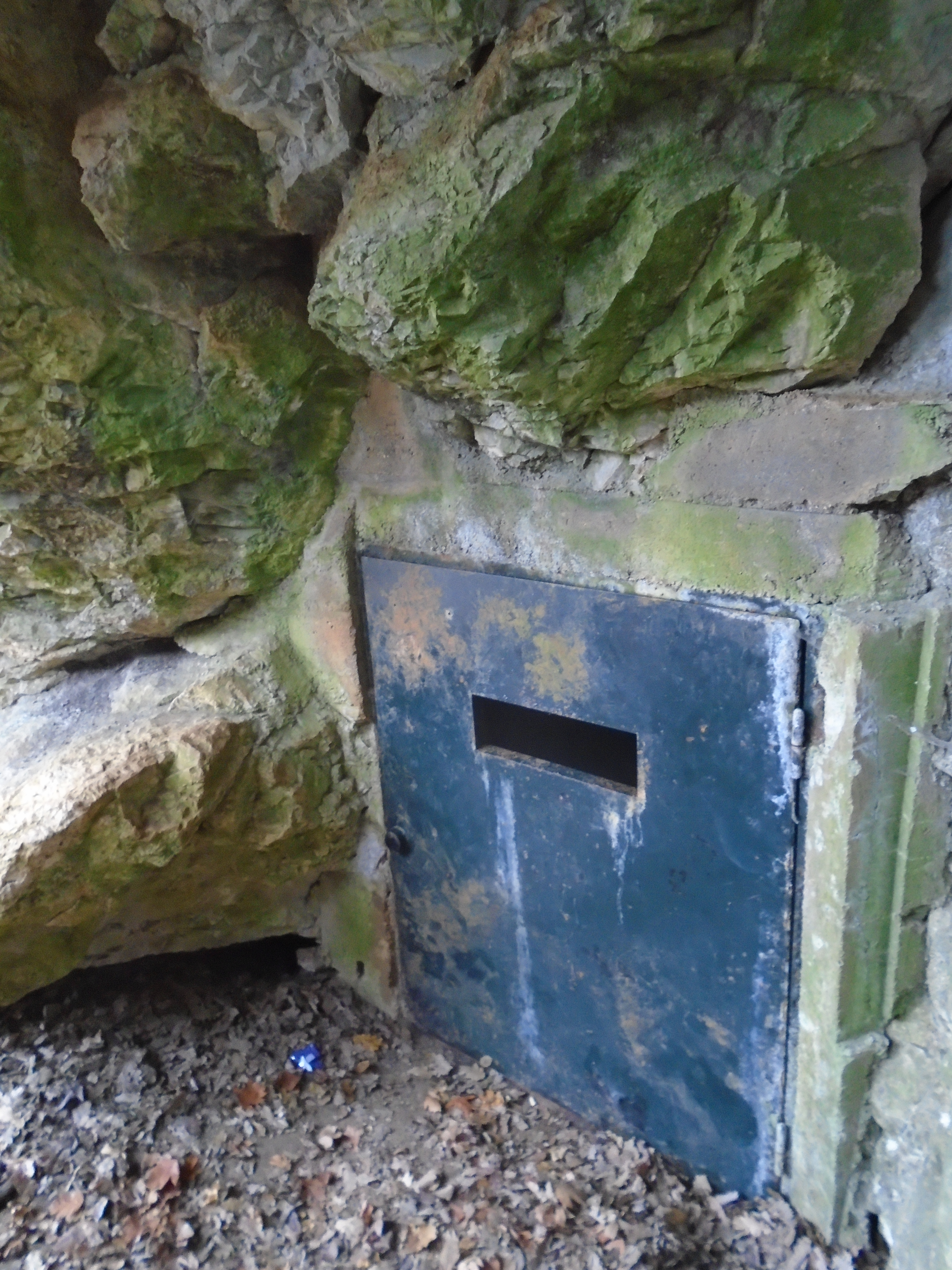 Door of Szentgáli Rockhole.